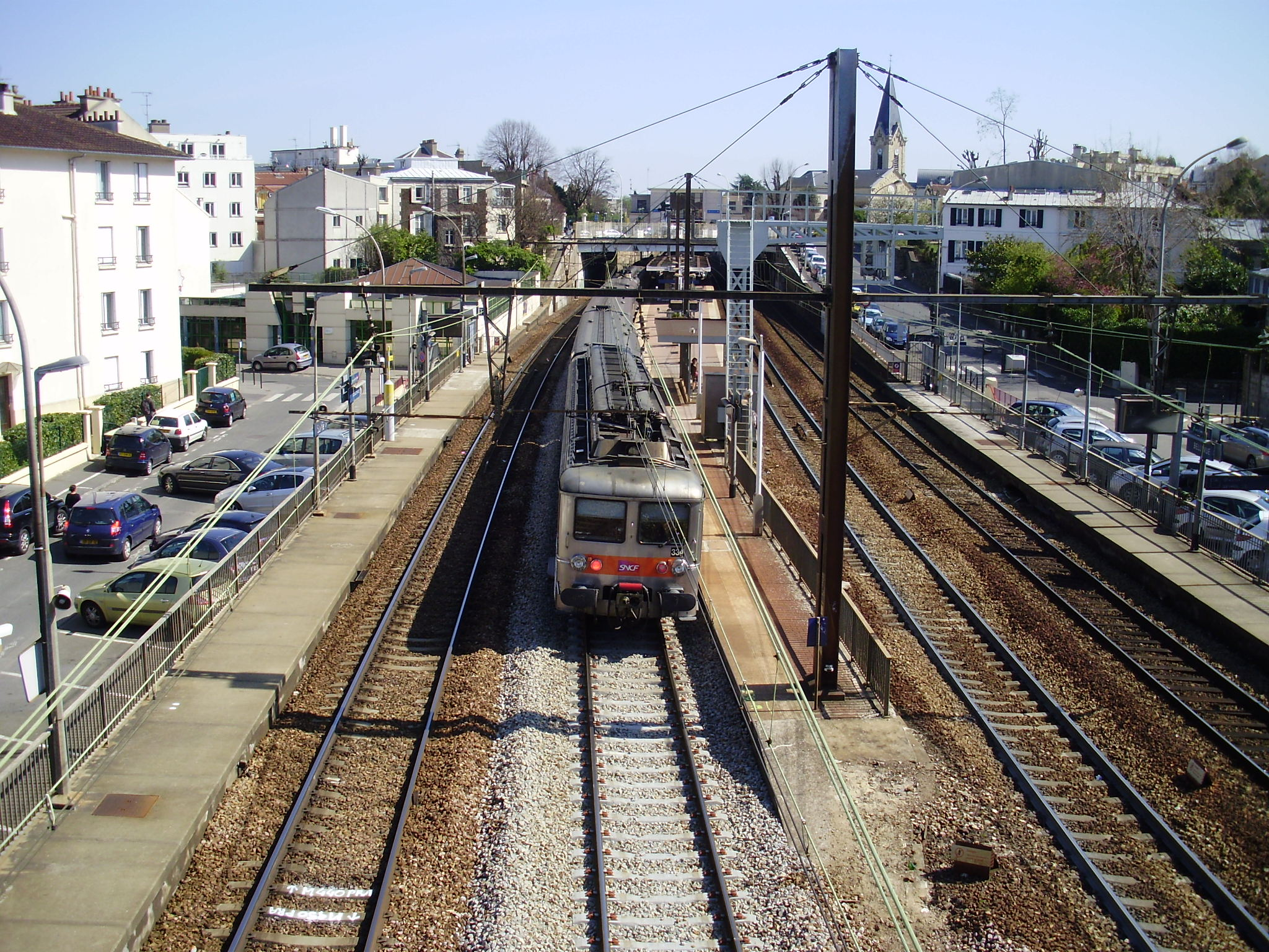 Bellevue station with a train, in Meudon, Hauts-de-Seine, France